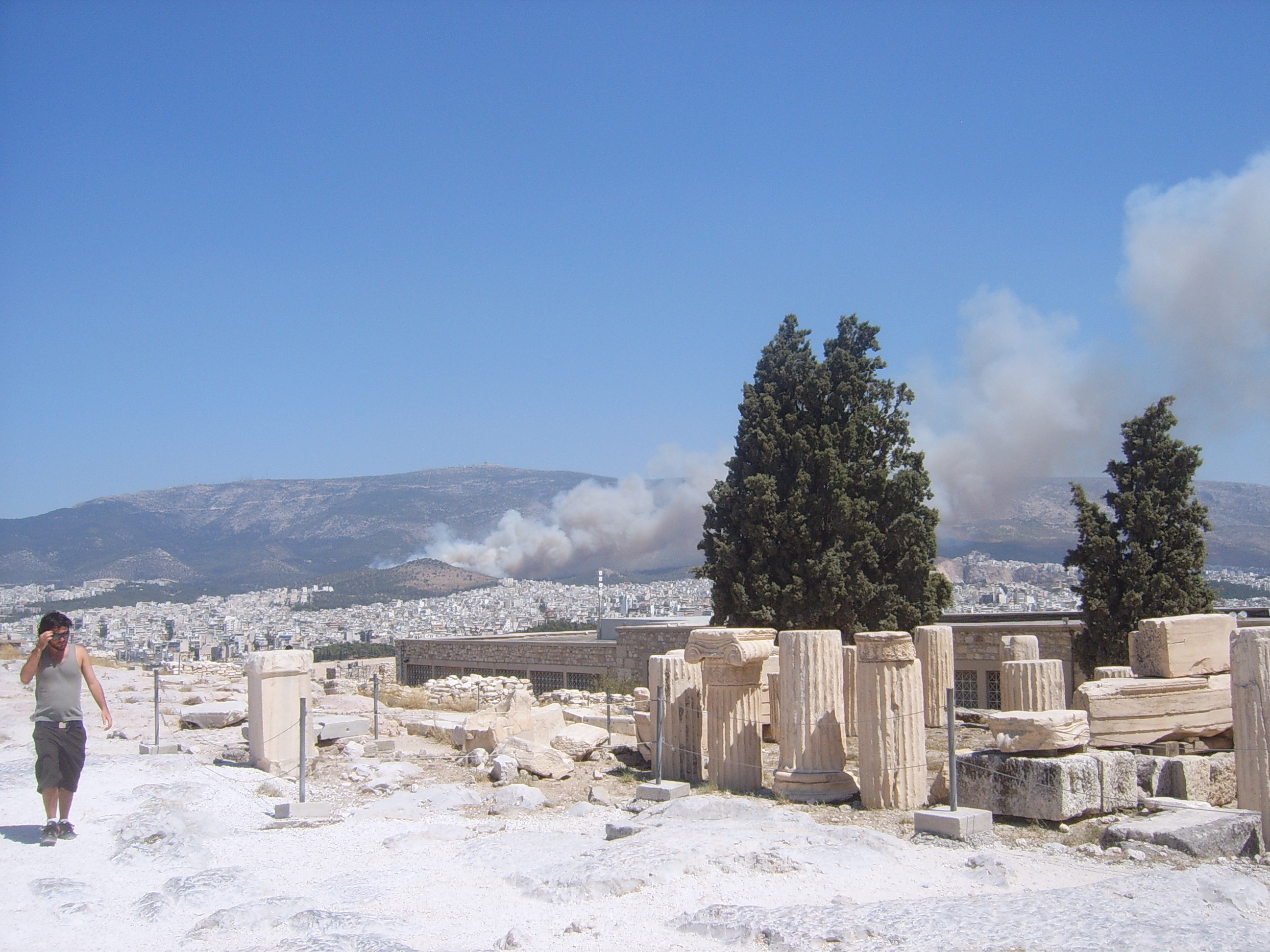 Athens burning, from the Akropolis, mid-july 2007